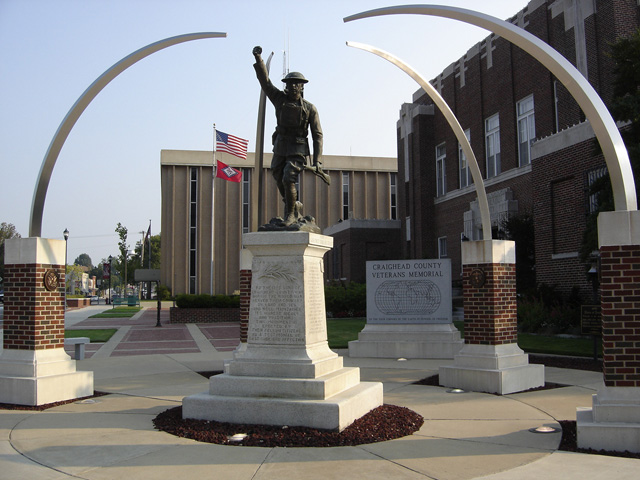 Downtown Jonesboro, Main St.